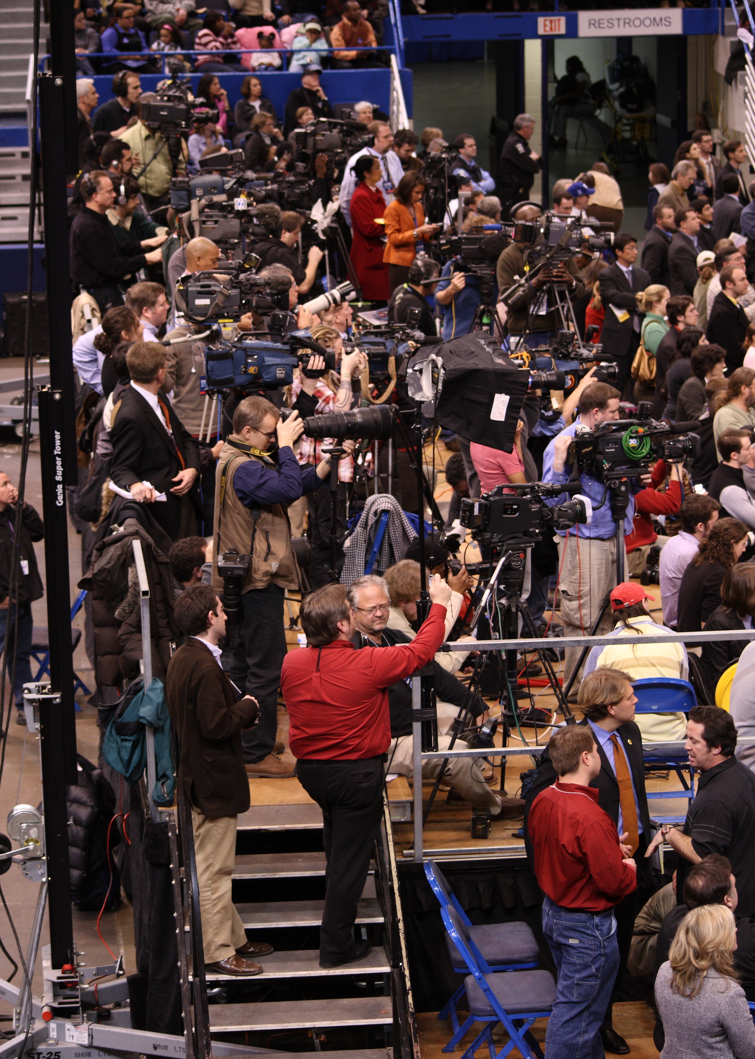 Media photographers and video crews, documenting the events onstage at a Barack Obama rally in Hartford, Connecticut